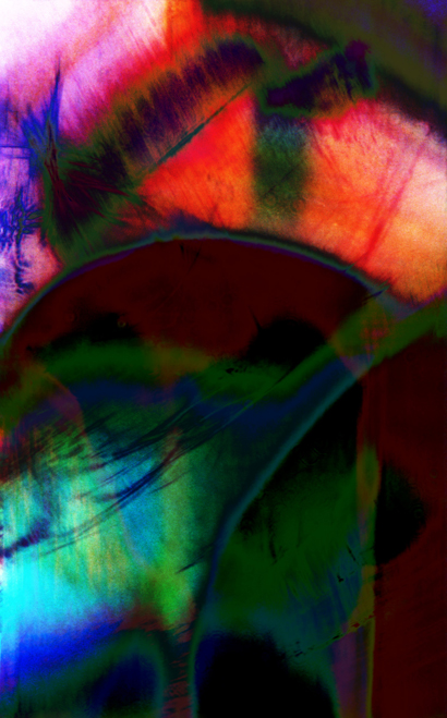 Electronic painting, 180cm x 120cm